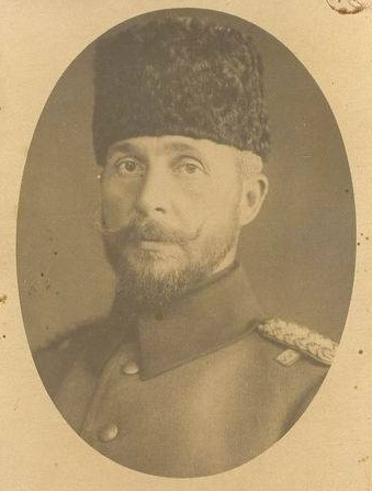 Nureddin Bey